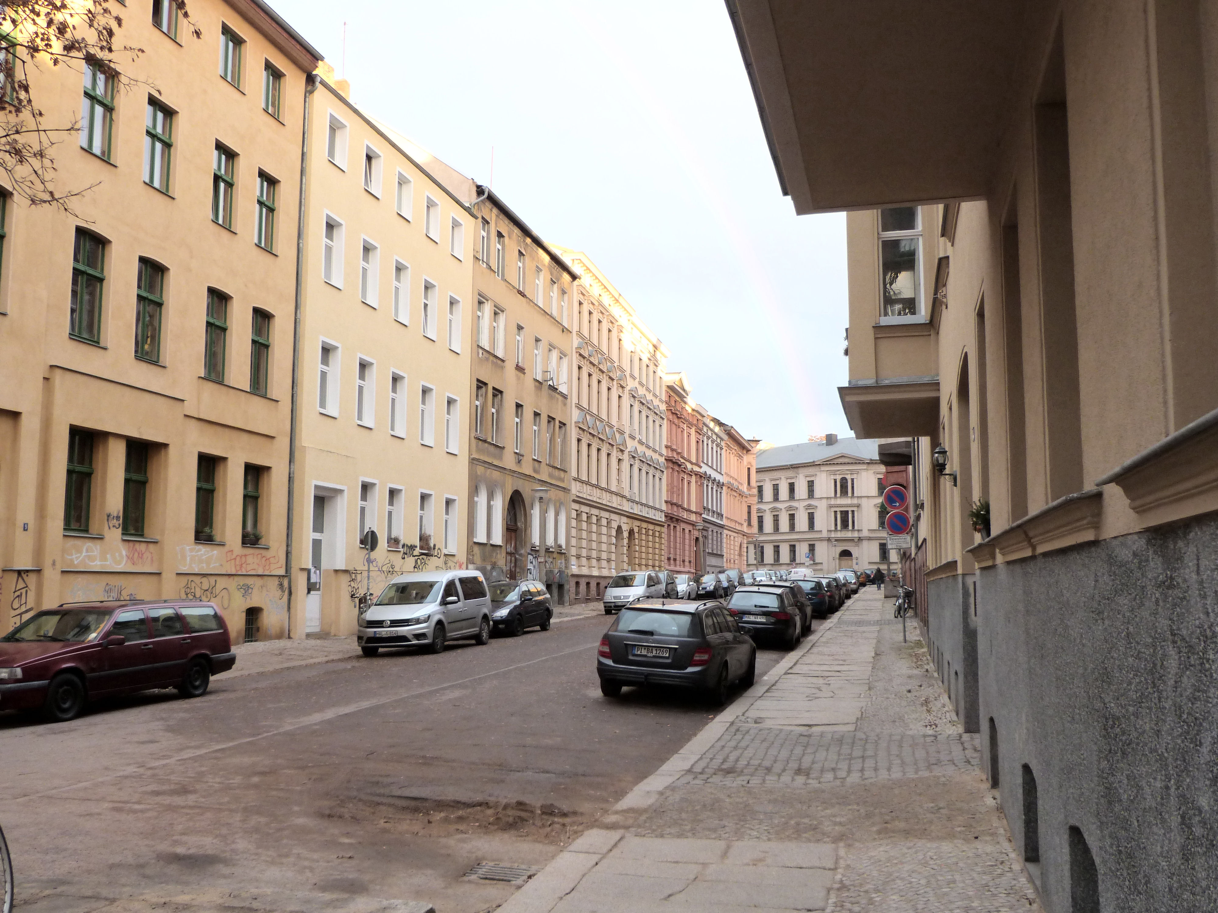 Street Puschkinstraße in Halle (Saale), Saxony-Anhalt